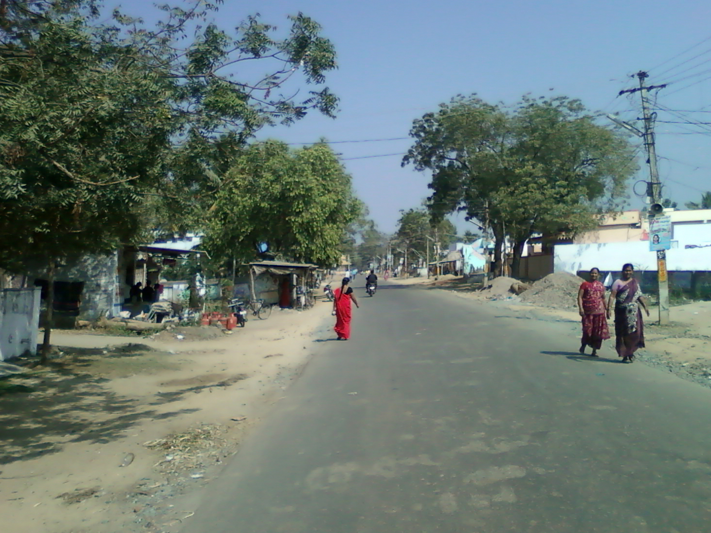 Road in Sarapaka, Khammam district